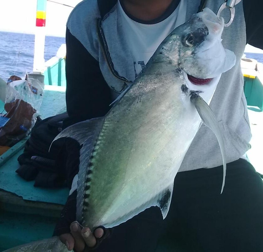 Taken in Bali